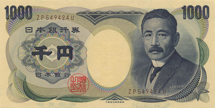 Image of Natsume Sōseki on a 1000 yen note Images on Currency are Public Domain.